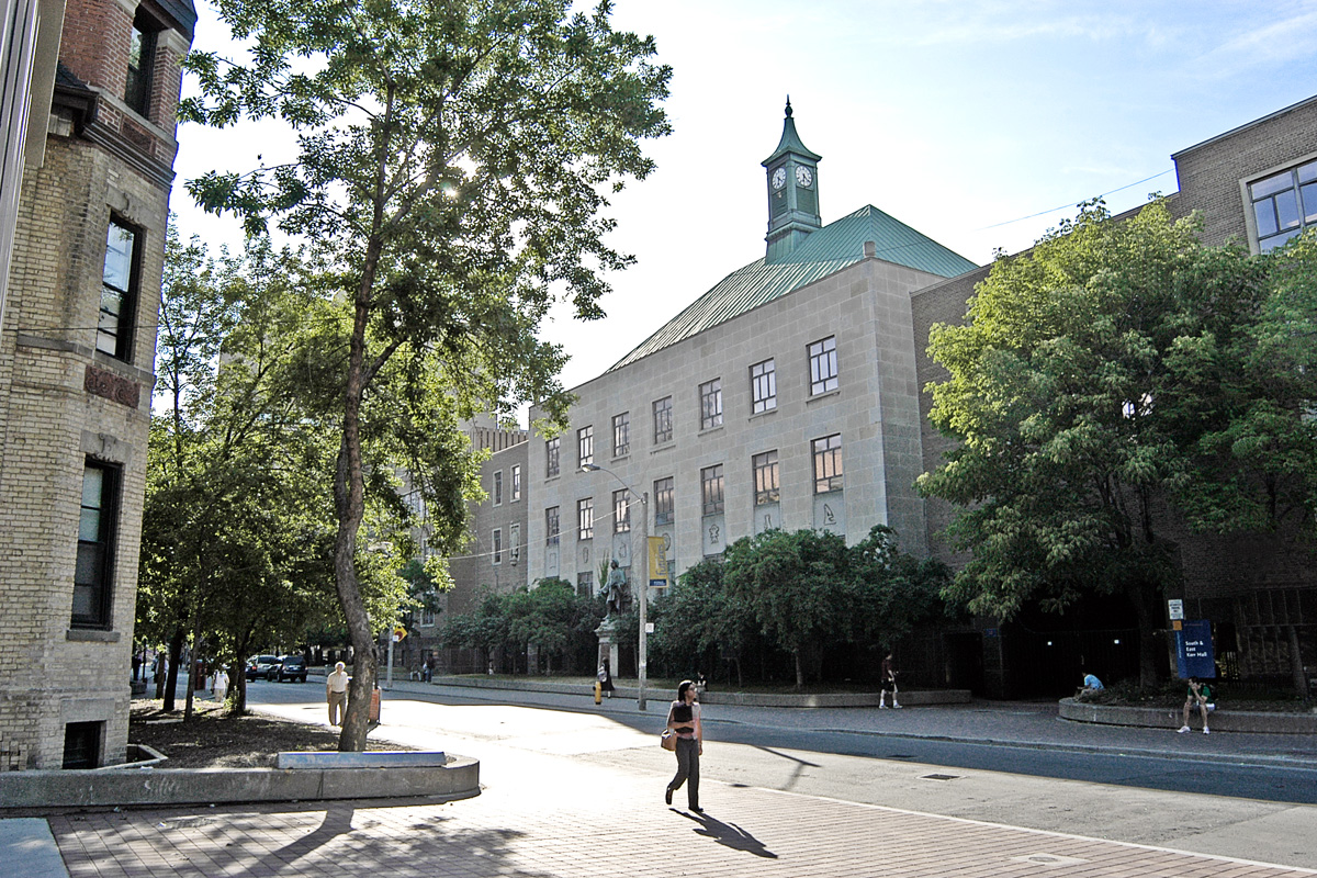 Kerr Hall Clock Tower